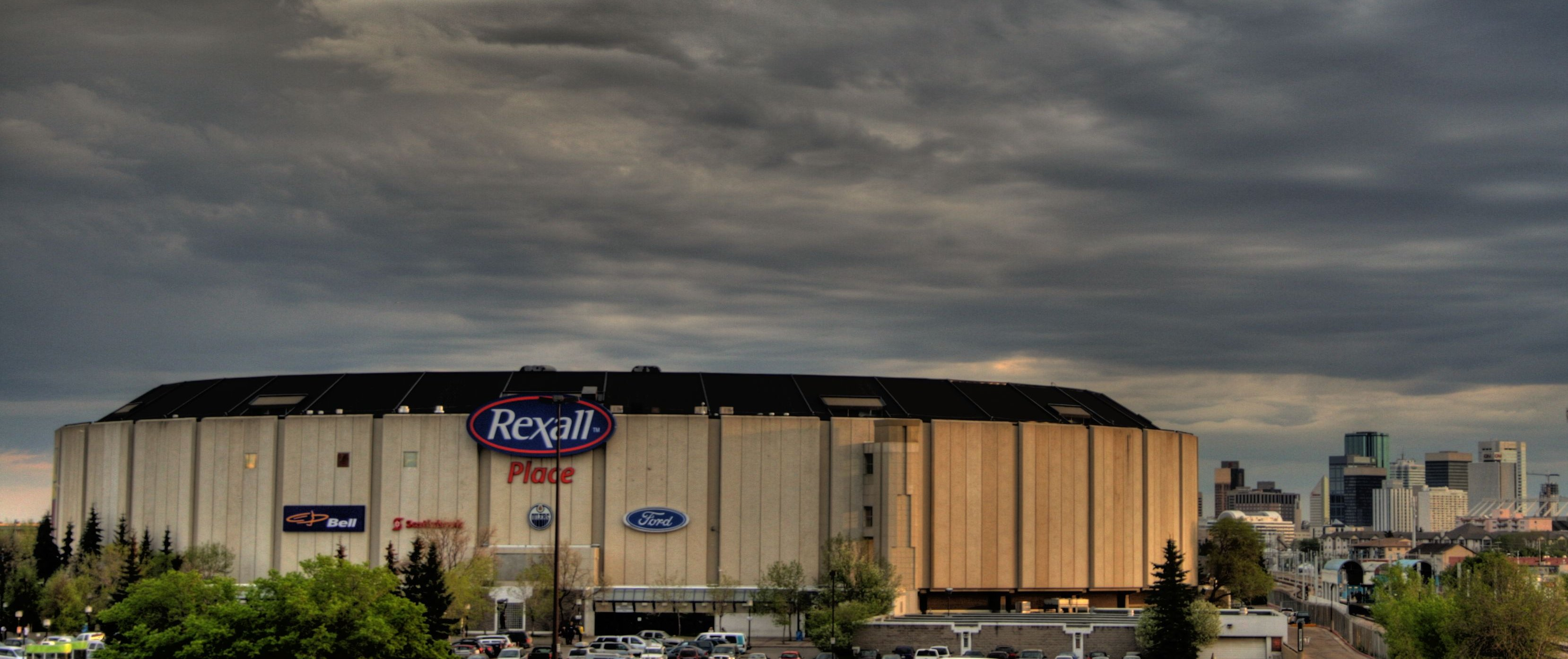 The north face of the Rexall Place sports complex in Edmonton, Alberta, Canada.